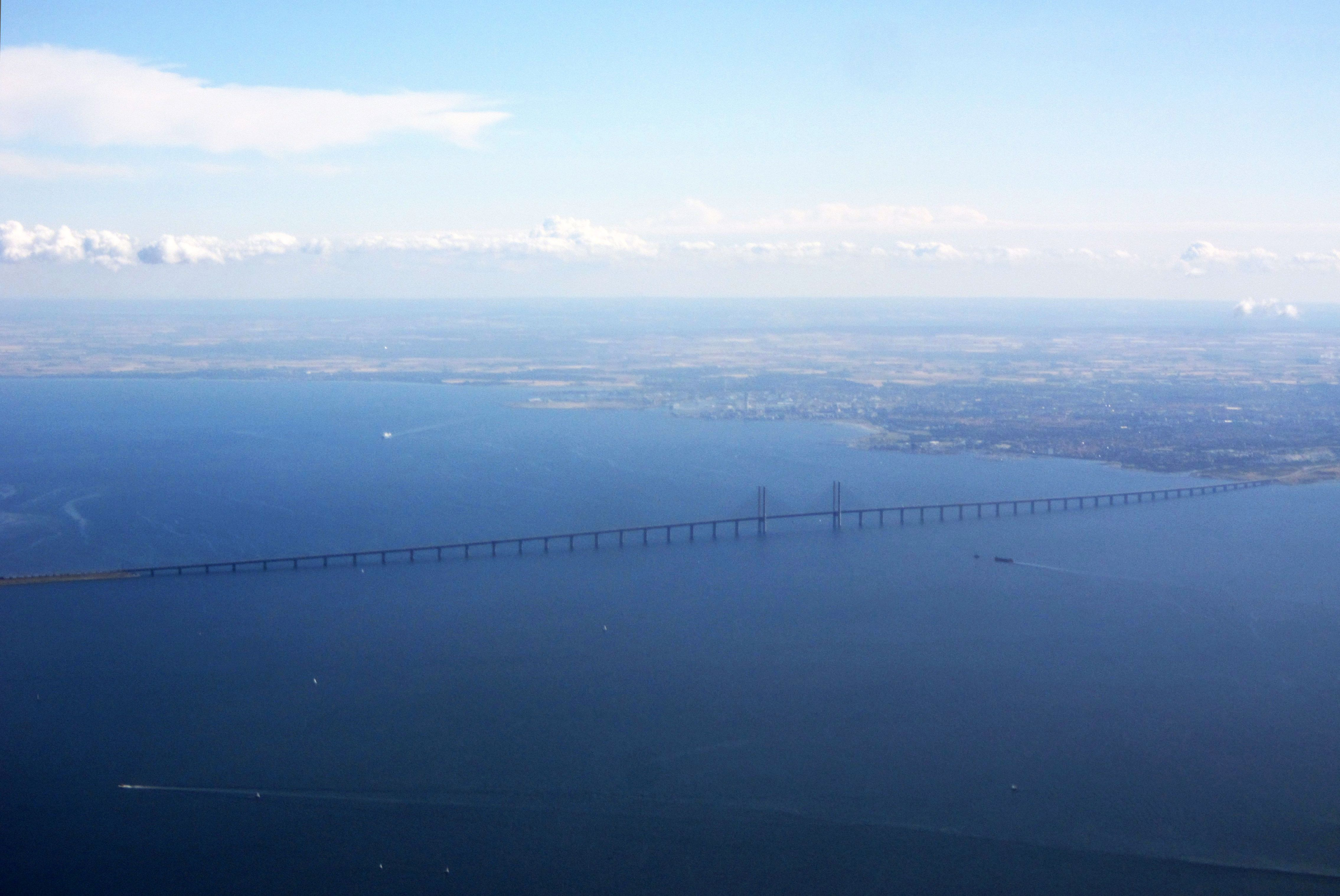 Øresund Bridge's full stretch between Peberholm and Malmö, with a few ships for demonstration of scale.